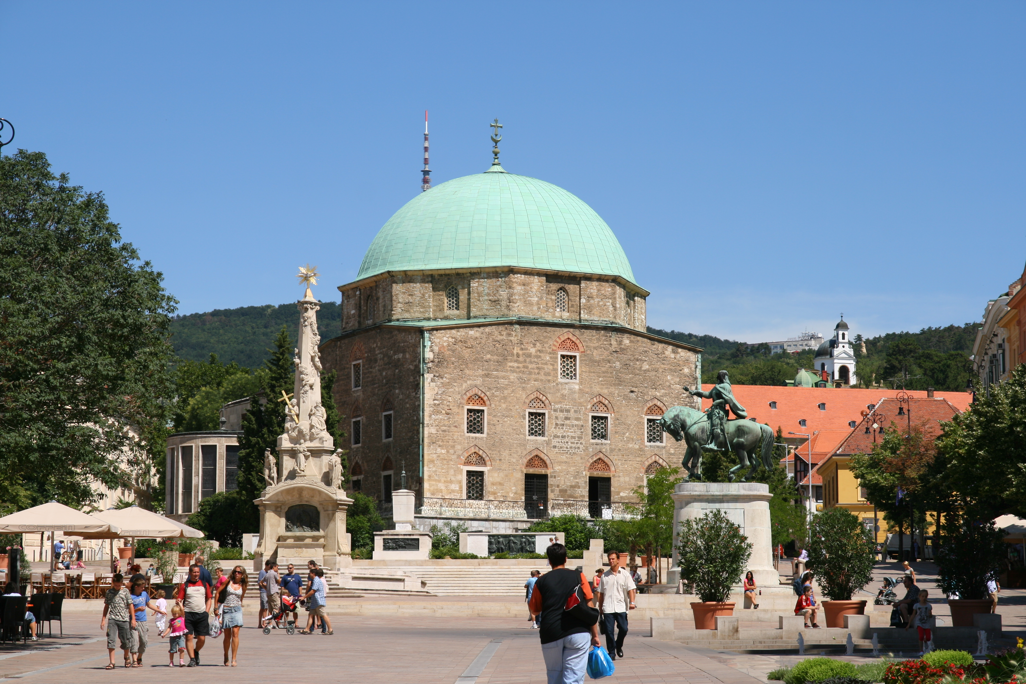 Széchenyi Square in Pécs (Hungary).